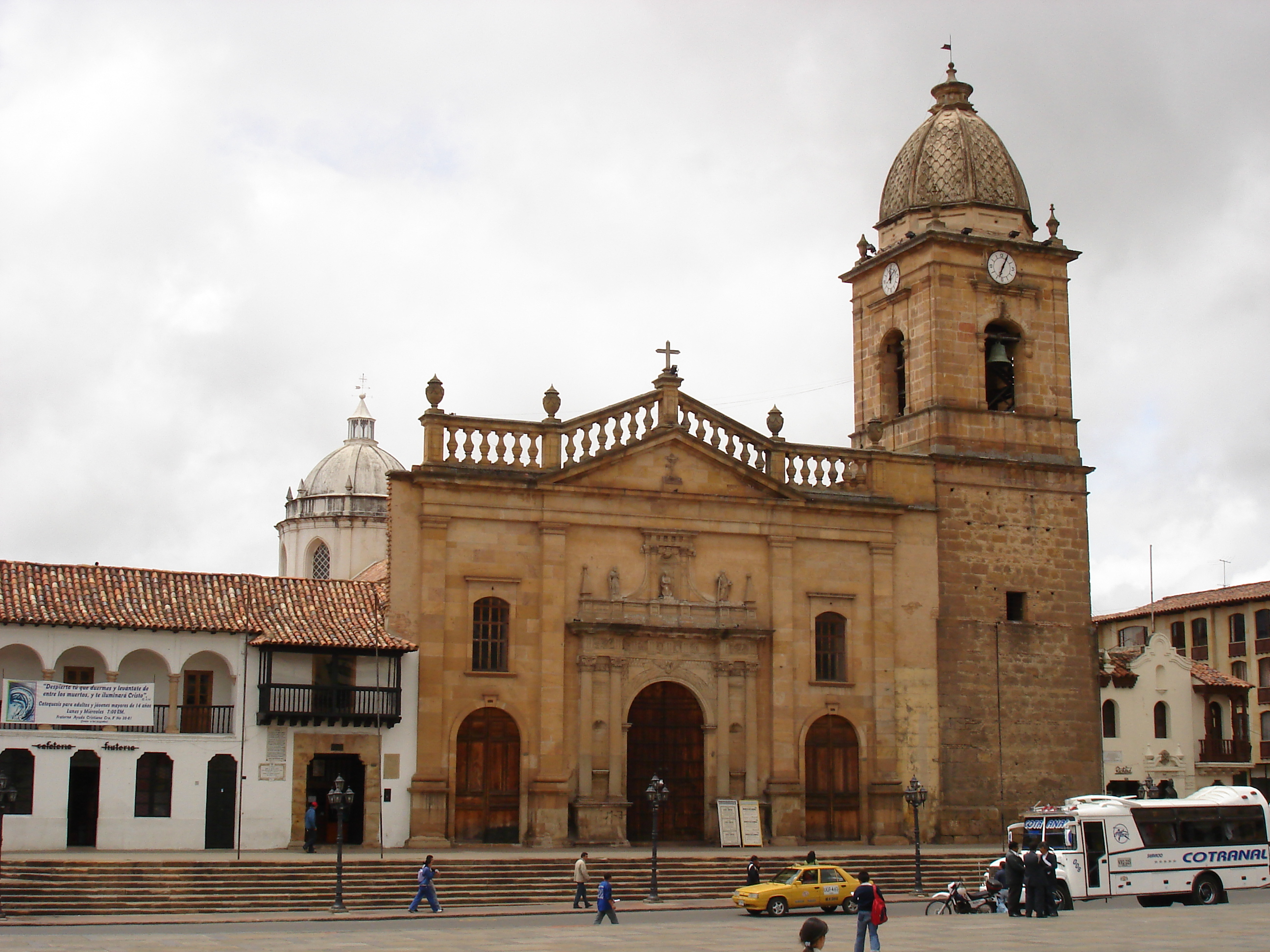 Picture of La Catedral in Tunja, Boyaca, Colombia